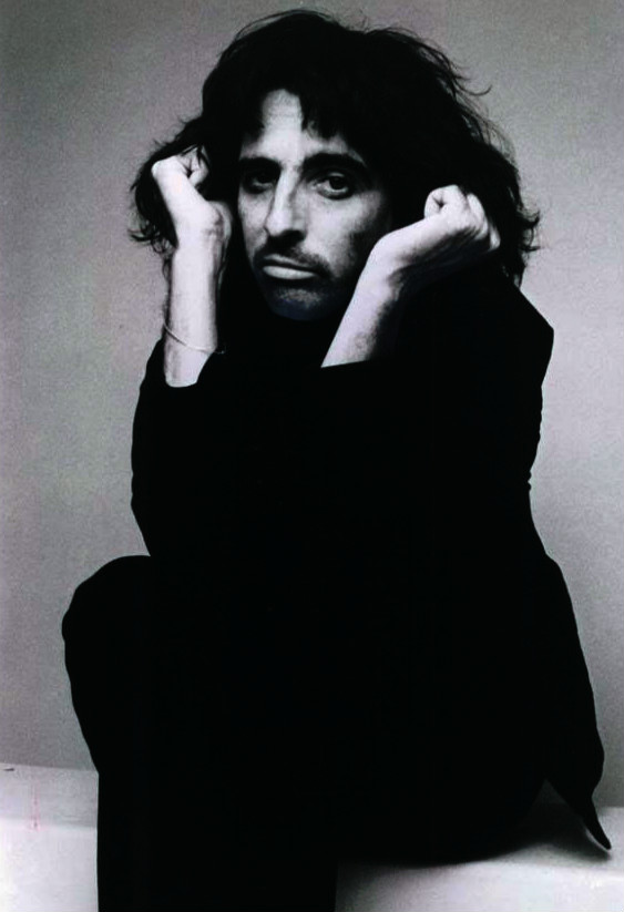 Photo of Alice Cooper.